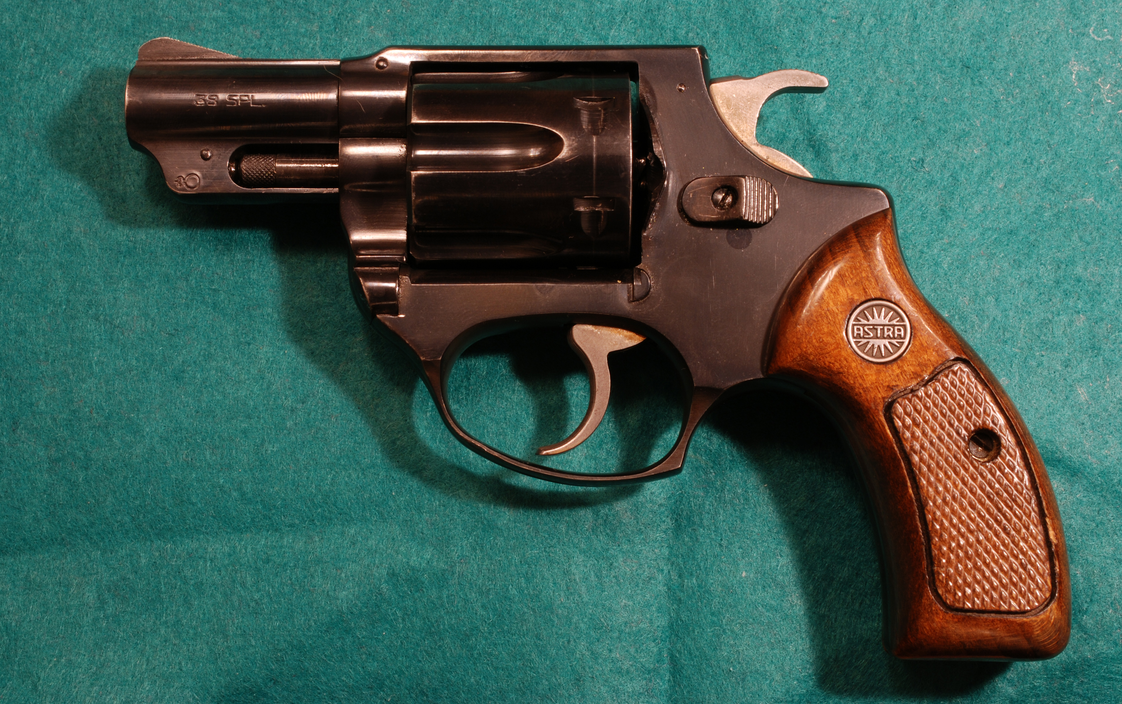 Picture of Astra 680 revolver cal. .38 Special